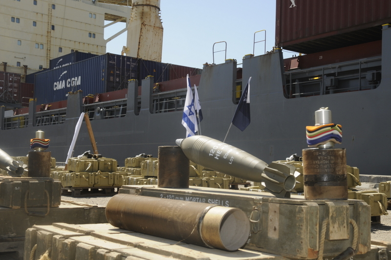 March 16, 2011 Pictured here: Some of the 230 120 mm mortar shells which were on-board the "Victoria". There were approximately 2,500 total mortar shells on the ship. The weaponry was transferred without the knowledge of the vessel's crew. The IDF Navy intercepted the cargo vessel “Victoria” loaded with various weaponry. According to assessments, the weaponry on-board the vessel was intended for the use of terror organizations operating in the Gaza Strip. The vessel, flying under a Liberian flag, was intercepted some 200 miles west of Israel’s coast. This incident was part of the Navy’s routine activity to maintain security and prevent arms smuggling, in light of IDF security assessments. The vessel initially departed from the Lattakia Port in Syria, and then proceeded to Mersin Port in Turkey. The IDF emphasizes that Turkey has no connection to this incident regarding the weaponry uncovered on-board. For more information